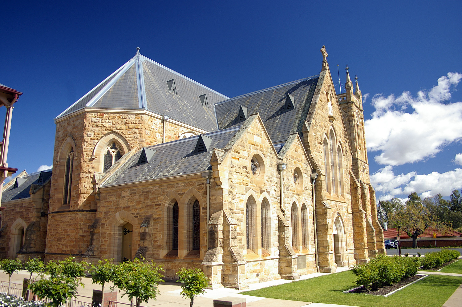 St Michael's Cathedral (Which was built in two stages, Stage one 1885-87 and stage two 1922-25) is one of 4 Victorian Gothic Sandstone Cathedrals built in New South Wales and one of the last to be built in Australia. St Michael's became a cathedral in 1917.